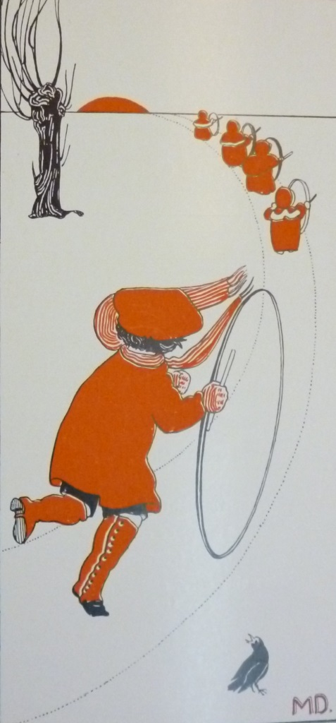 Round-about Rhymes Written and pictured by Mrs. Percy Dearmer 1898. She died in 1915